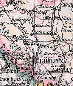 Detail from a map of Silesia.